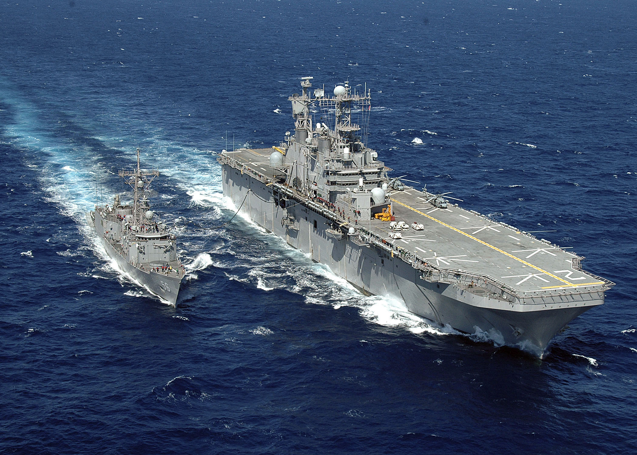 060604-N-2651J-468 Mediterranean Sea (June 4, 2006) - The amphibious assault ship USS Saipan (LHA 2) conducts an underway replenishment with USS Simpson (FFG 56) during exercise Phoenix Express 2006. Phoenix Express is a multi-national combined exercise with North African and European forces. The exercise provides U.S. and allied forces an opportunity to participate in diverse maritime training scenarios helping to increase maritime domain awareness and strengthen emerging and enduring partnerships.